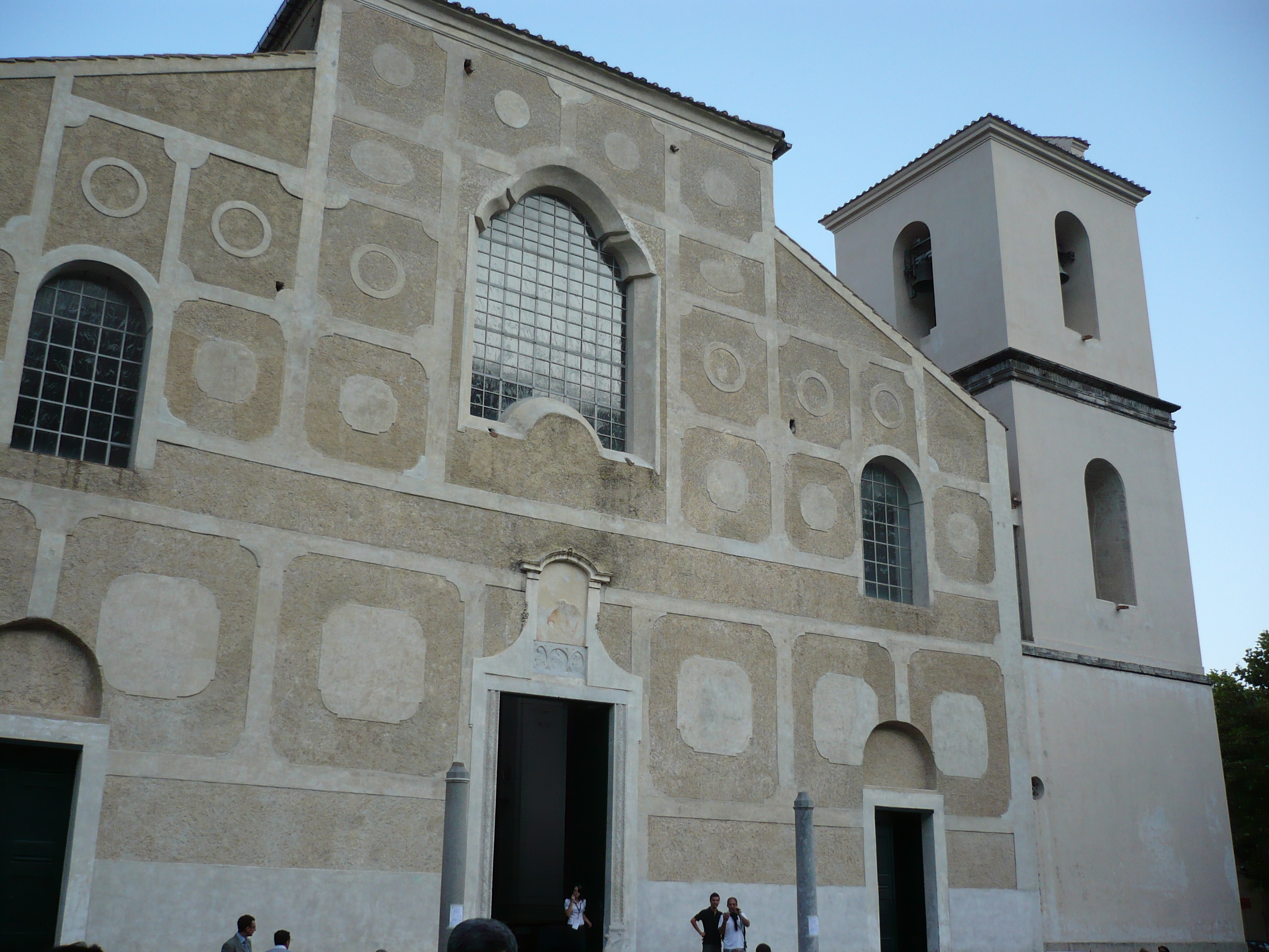 The Duomo of Saint Lawrence in Scala